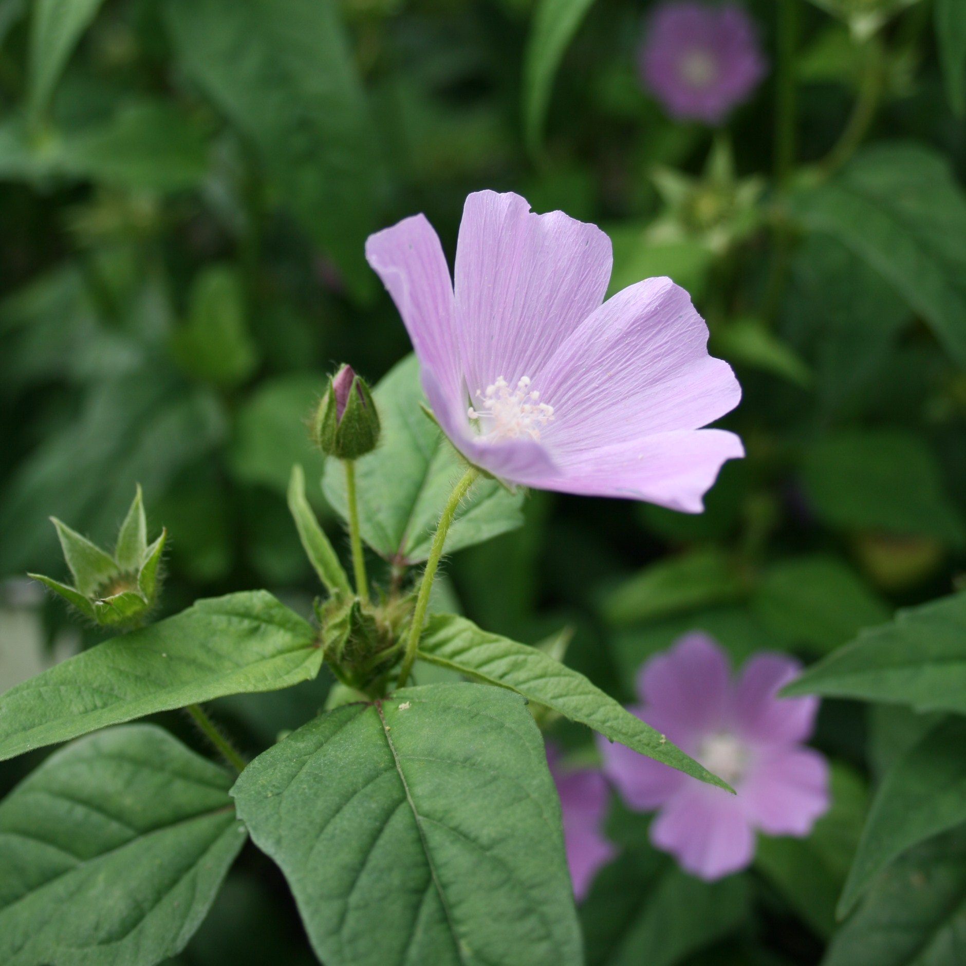 Anoda cristata